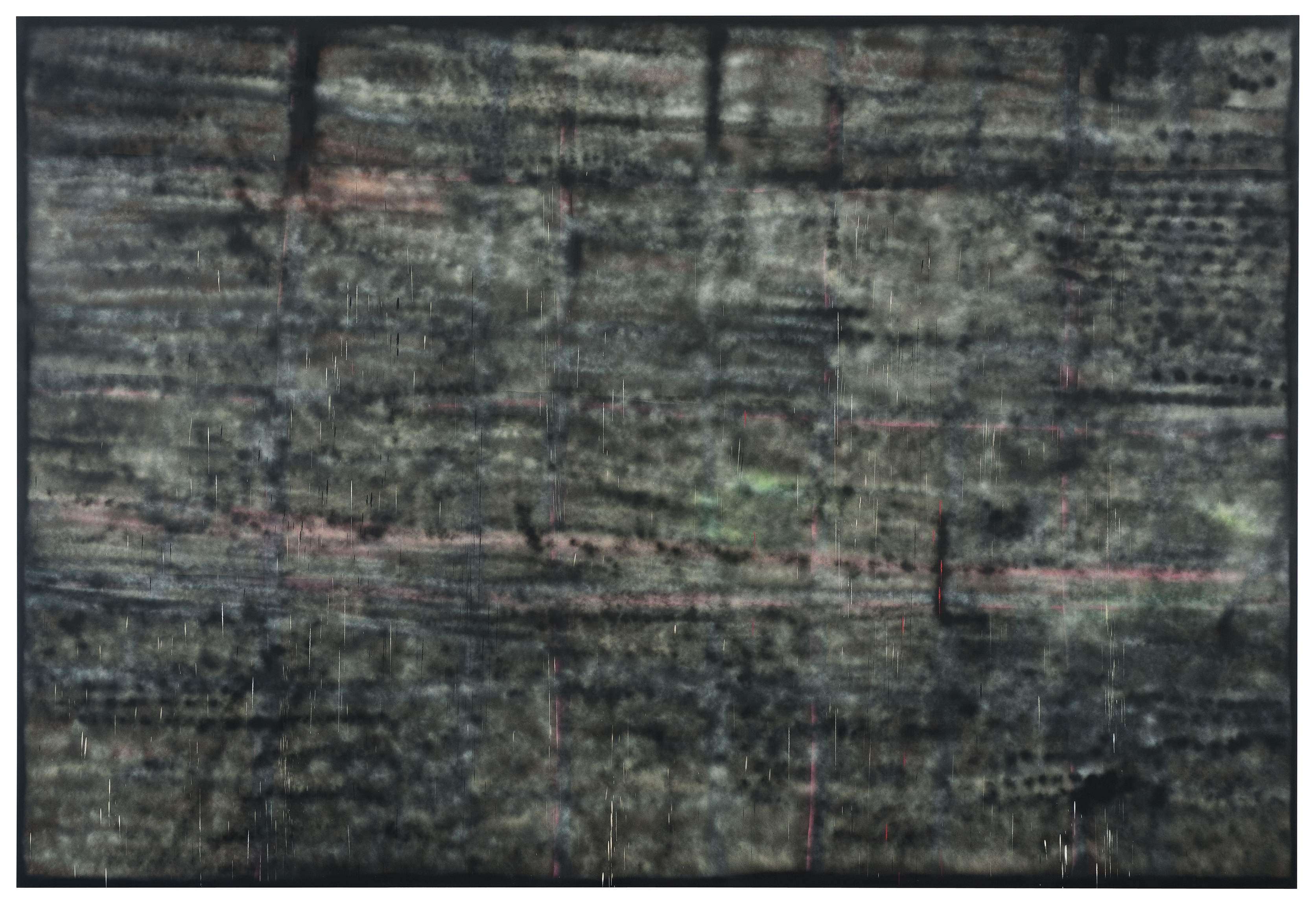 Image of SP181. A painting by the artist Sterling Ruby.